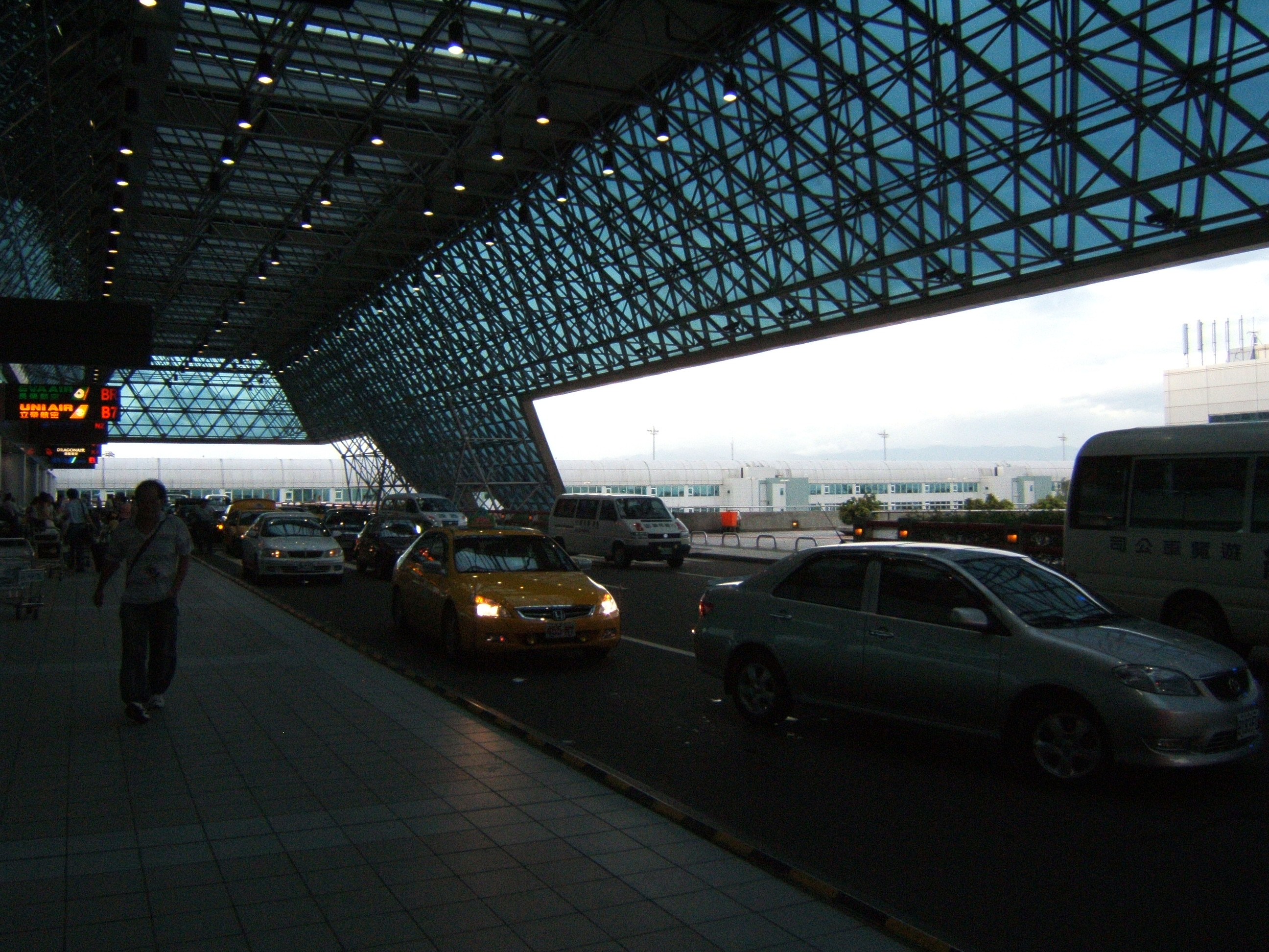 Space frames outside of Taiwan Taoyuan International Airport Terminal 2.